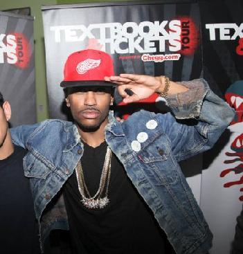 Big Sean at a show in Austin,TX